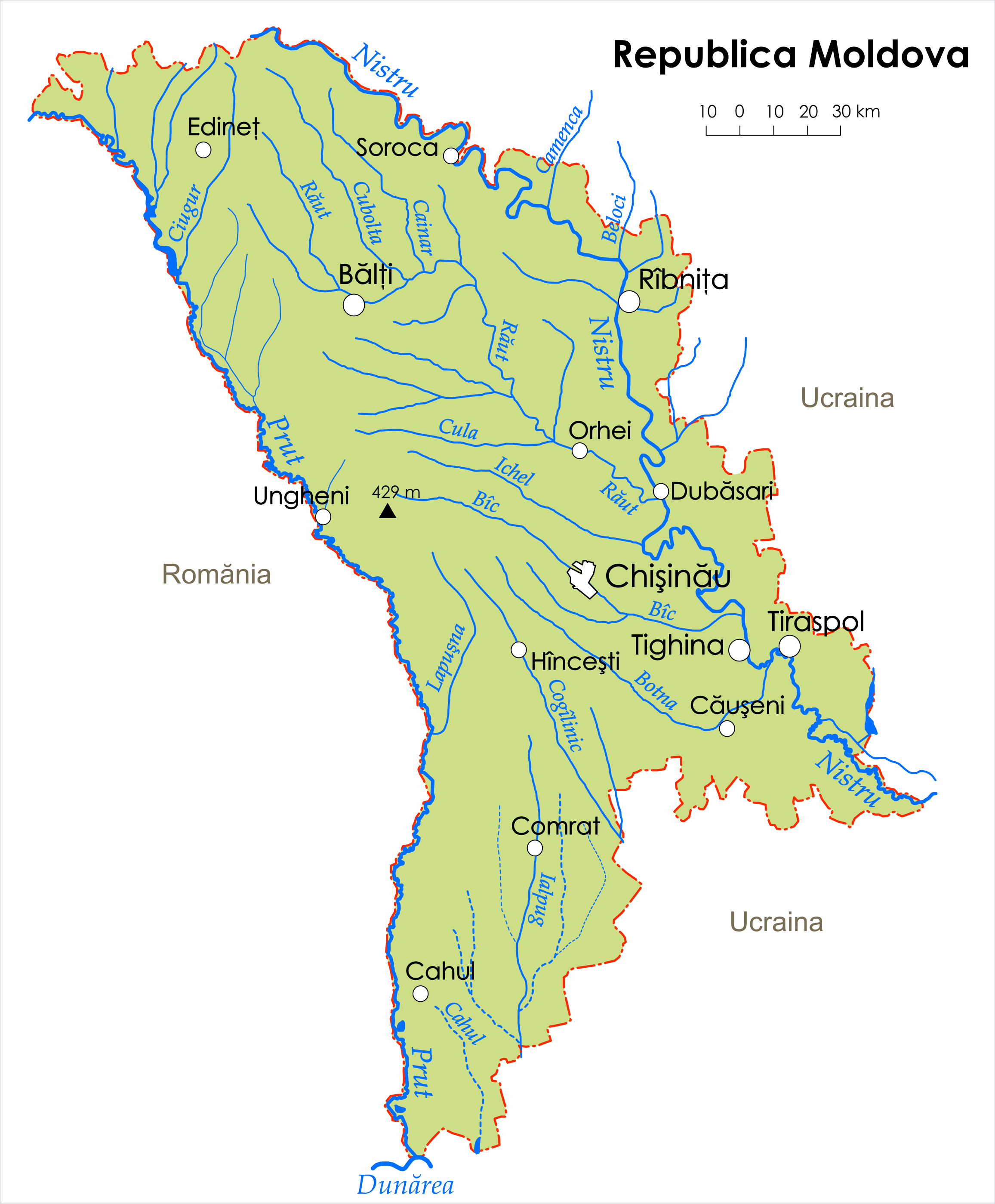 map of Republic of Moldova (in romanian)